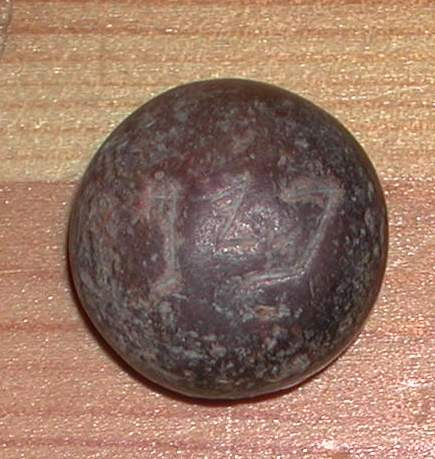 Unprovenanced stone pim weight (top-view photo) in private collection.